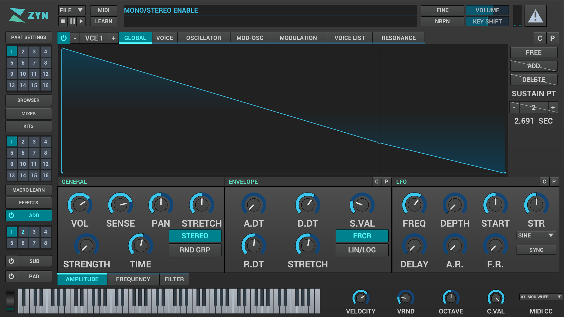 Screenshot of ZynAddSubFX's new (3.0) single-window GUI.